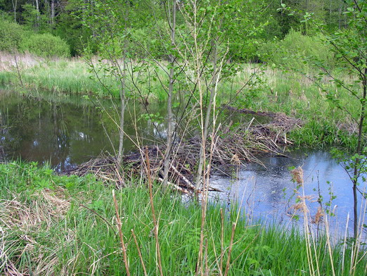 Beaver dam